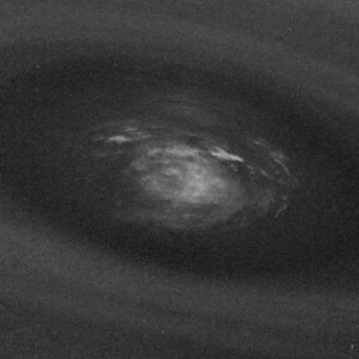 This is the best image of the Small Dark Spot that was obtained by Voyager. The small spot is thought to be a storm in Neptune's atmosphere, perhaps similar to the Great Red Spot on Jupiter.